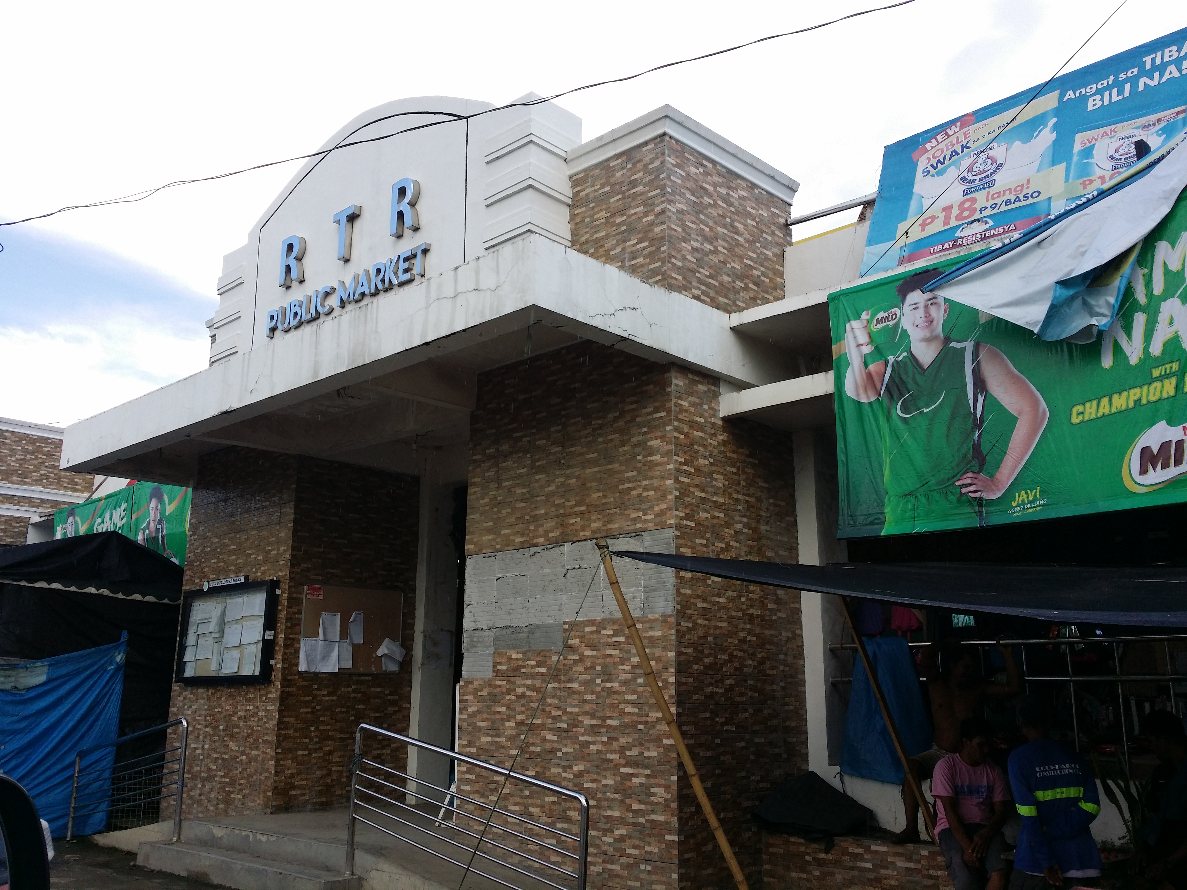 RTR Public Market.